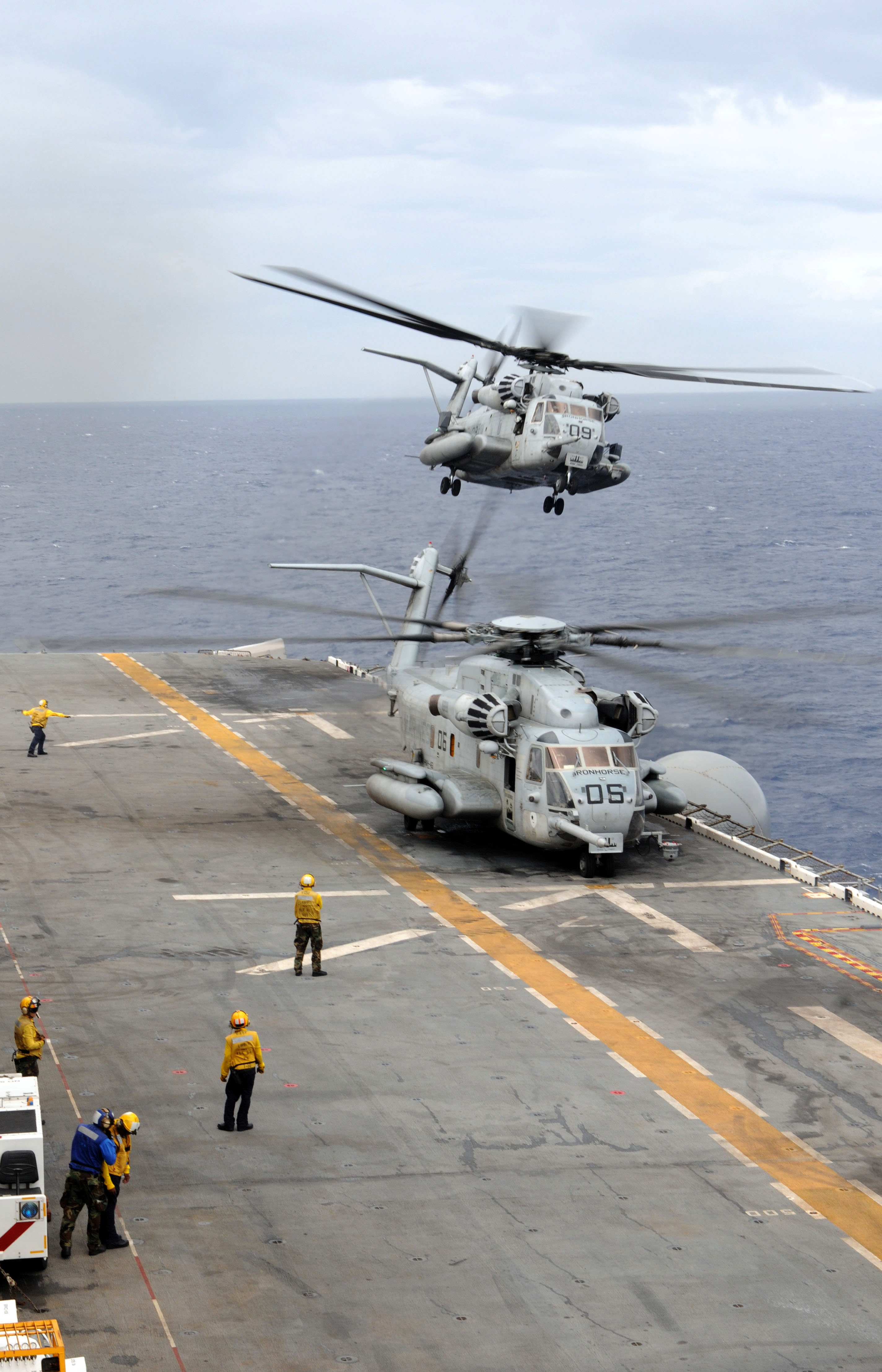 CARIBBEAN SEA (Nov. 23, 2009) A CH-53E Super Stallion helicopter assigned to the Iron Horses of Marine Heavy Helicopter Squadron (HMH) 461 takes off on the flight deck of the multi-purpose assault ship USS Wasp (LHD-1), transporting Marines assigned to the security cooperation marine air-ground task force, to perform theater security cooperation exercises with the Belize Defense Force